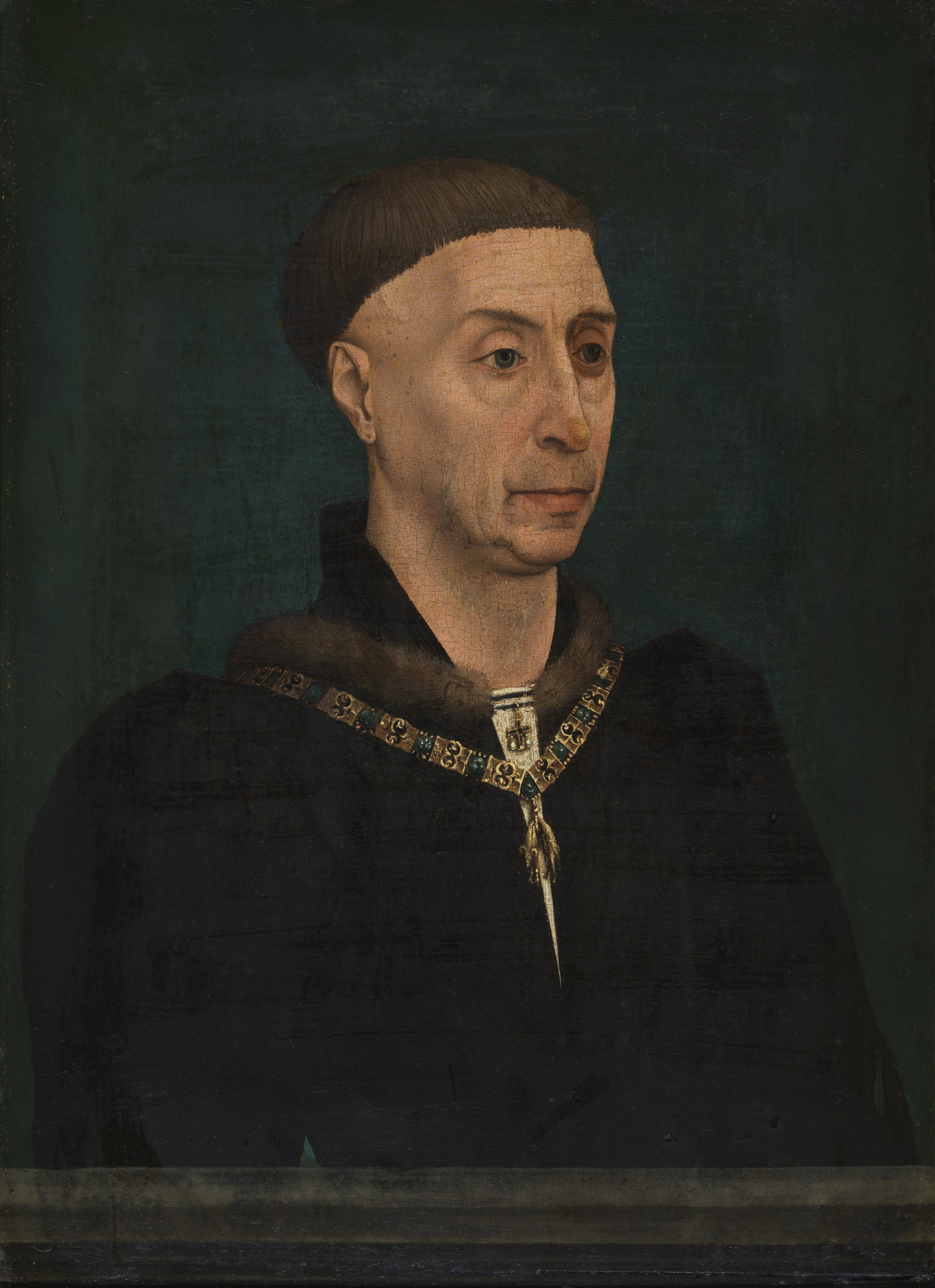 Portrait of Philip the Good (1396-1467), third Duke of Burgundy from the House of Valois. Half length, facing right. Old copy after Rogier van der Weyden. Other versions in Madrid, Berlin, Gotha and Lille.